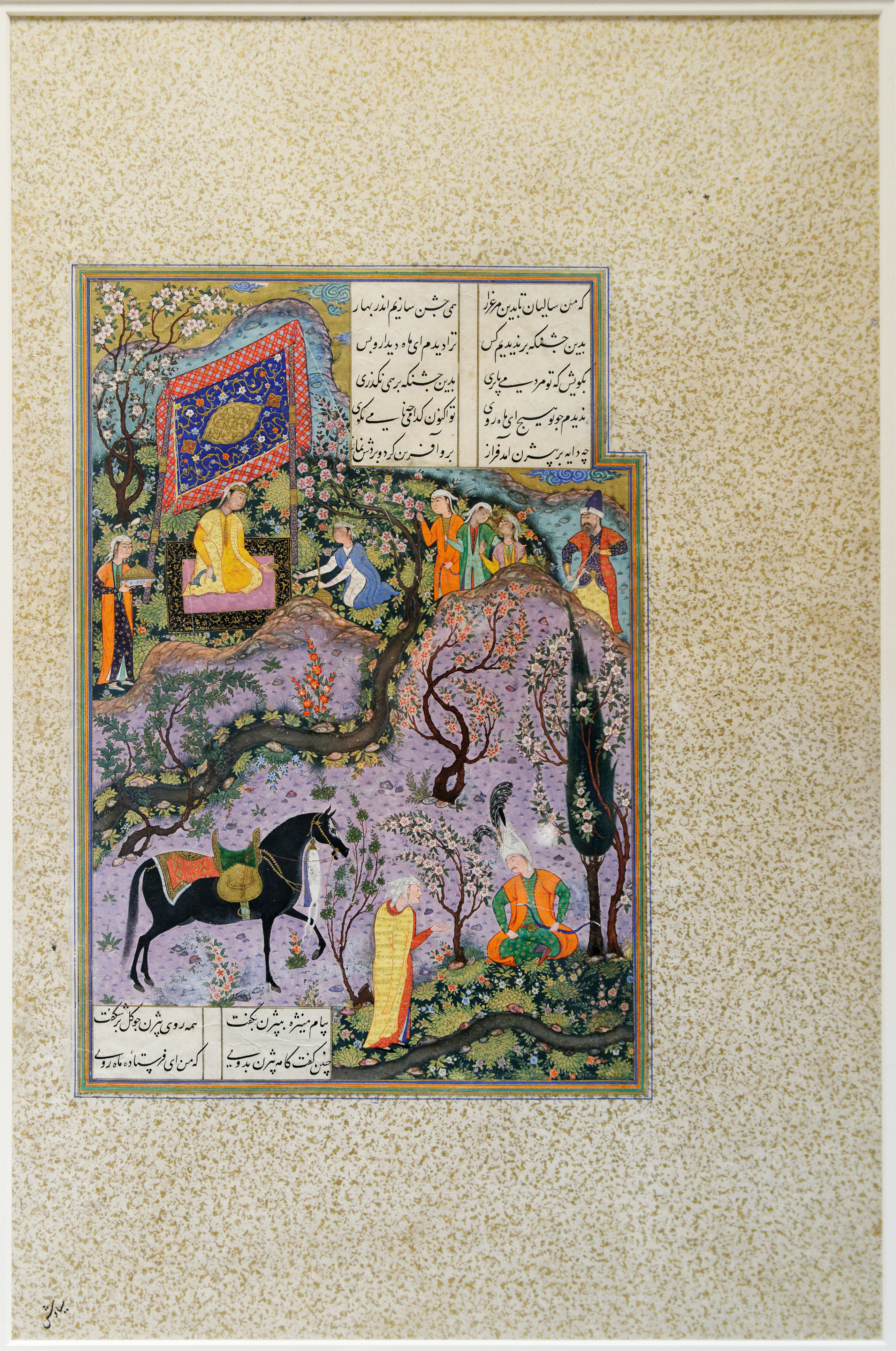 Bizhan receives an invitation through Manizheh's nurse, folio from the Shahnameh (Book of Kings) of Shah Tahmasp.